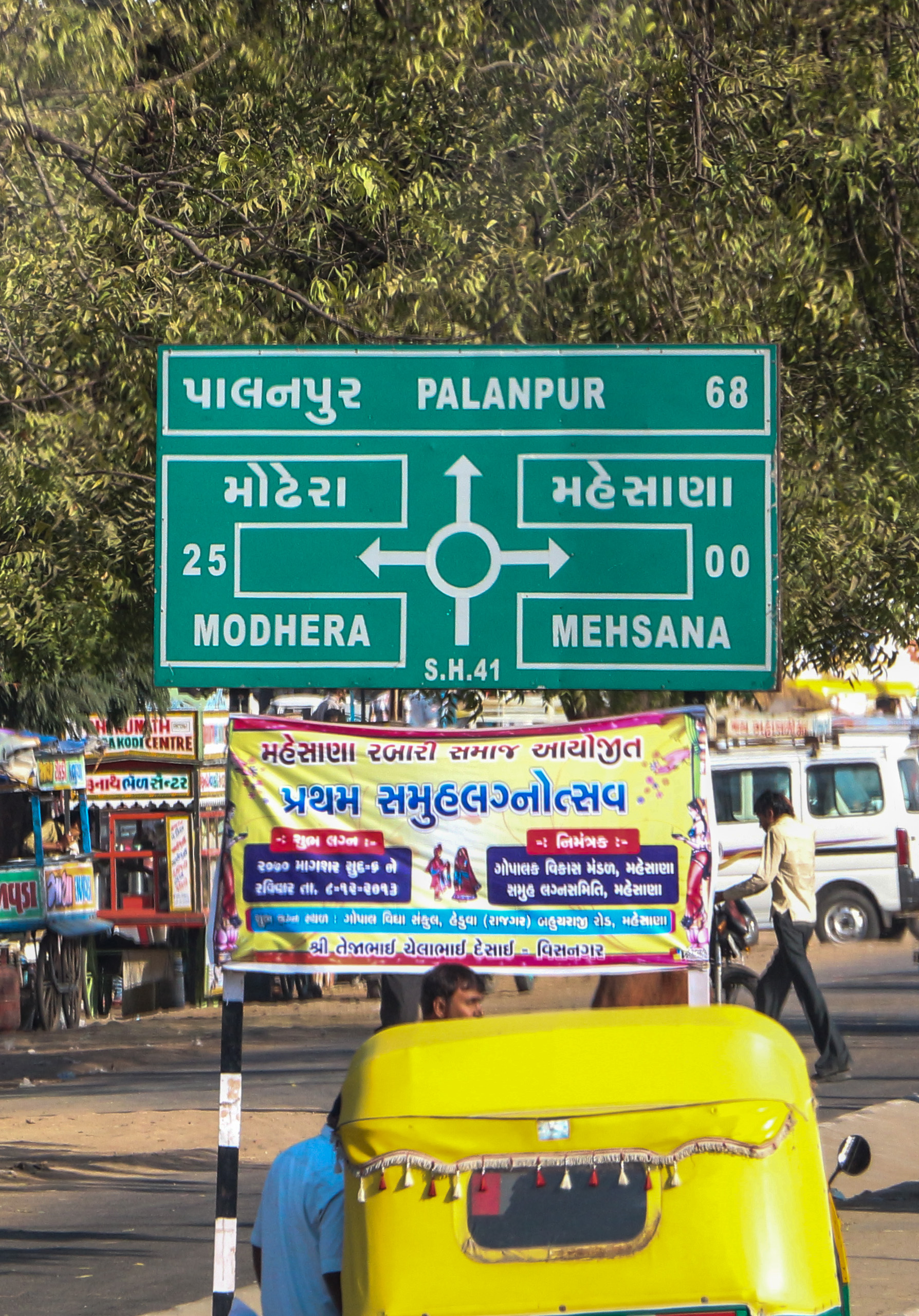 Sign in the city of Mehsana, Gujarat, India